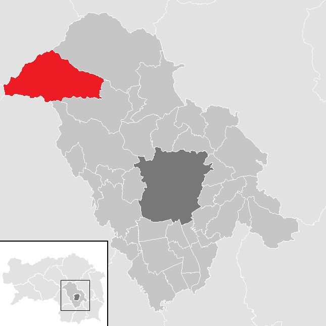 District Graz-Umgebung, Styria